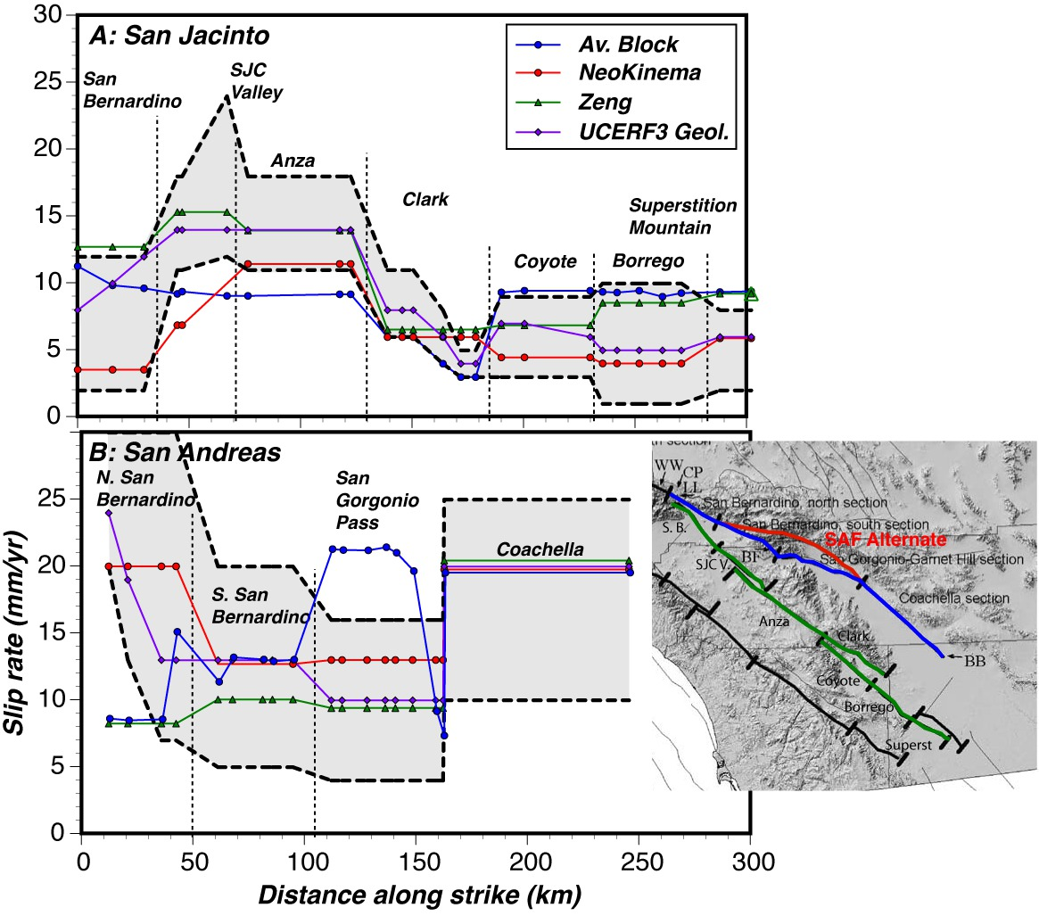 Plots of slip rates on two parallel faults (the San Andras and the San Jacinto) as determined by different deformation models, showing variations along each segment. Citation: “Appendix C - Deformation Models for UCERF3”, in U.S. Geological Survey[1], volume Open-File Report 2013-1165, 2013.